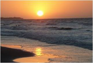 playas de moñitos